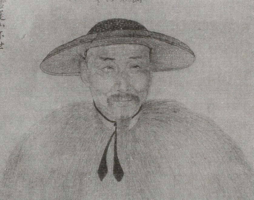 Detail of Auto portrait of Luo Ping, painter, Palace Museum, Beijing